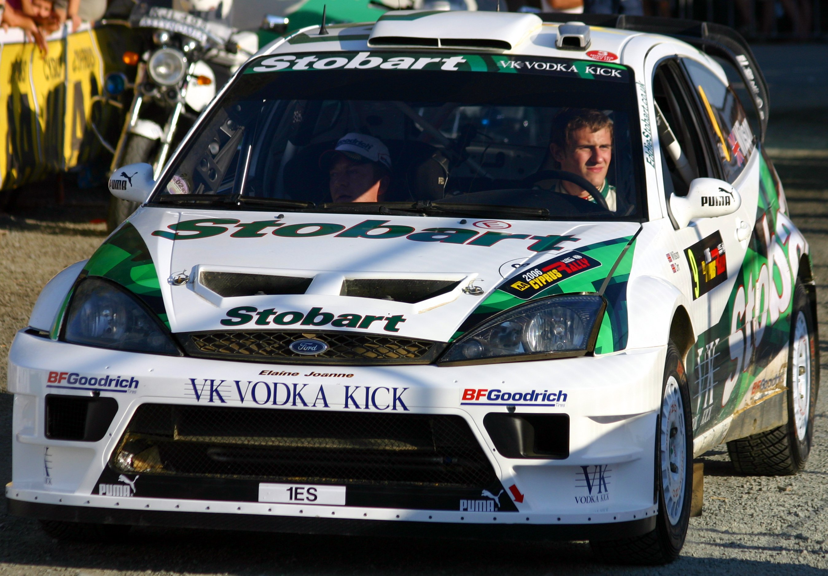 Matthew Wilson at the closing ceremony of the 2006 Cyprus Rally.